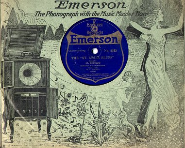 Fanciful artwork on Emerson Records paper sleeve, c 1919